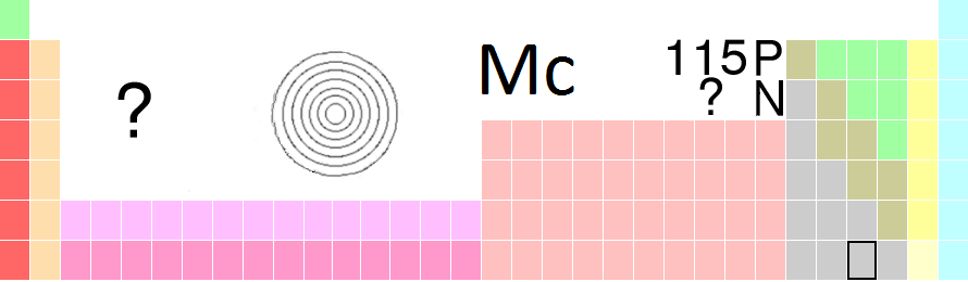 Moscovium on the periodic table